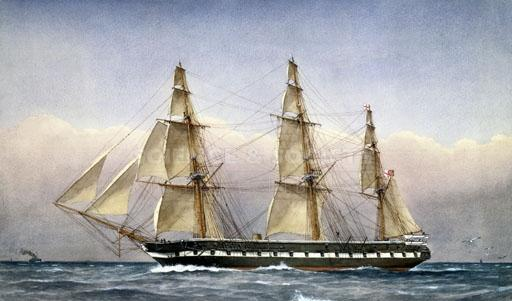 HMS Glasgow (launched 1861) painted by W Fred Mitchell in 1903